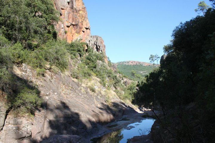 Vue des gorges